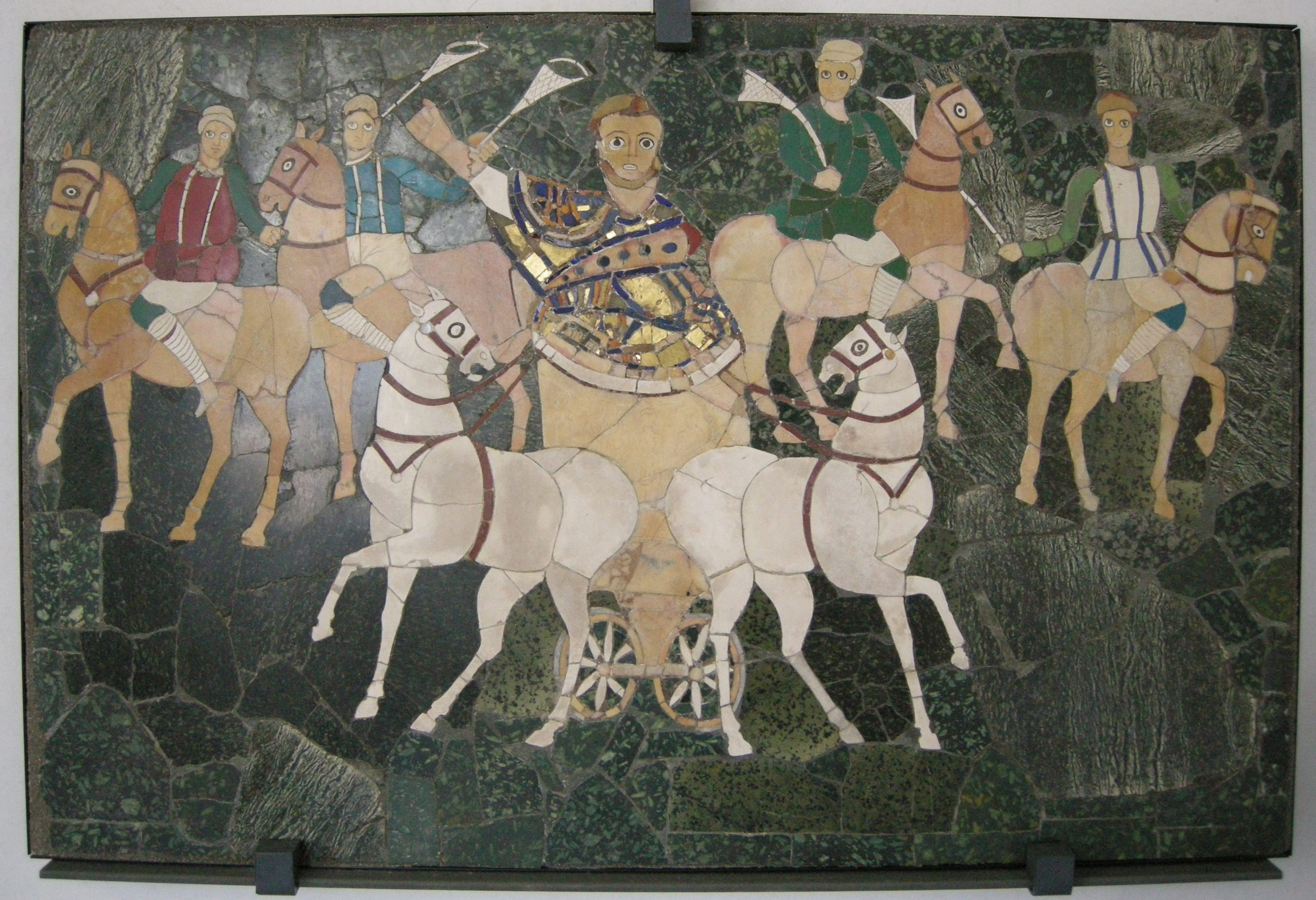 read filename please (it)